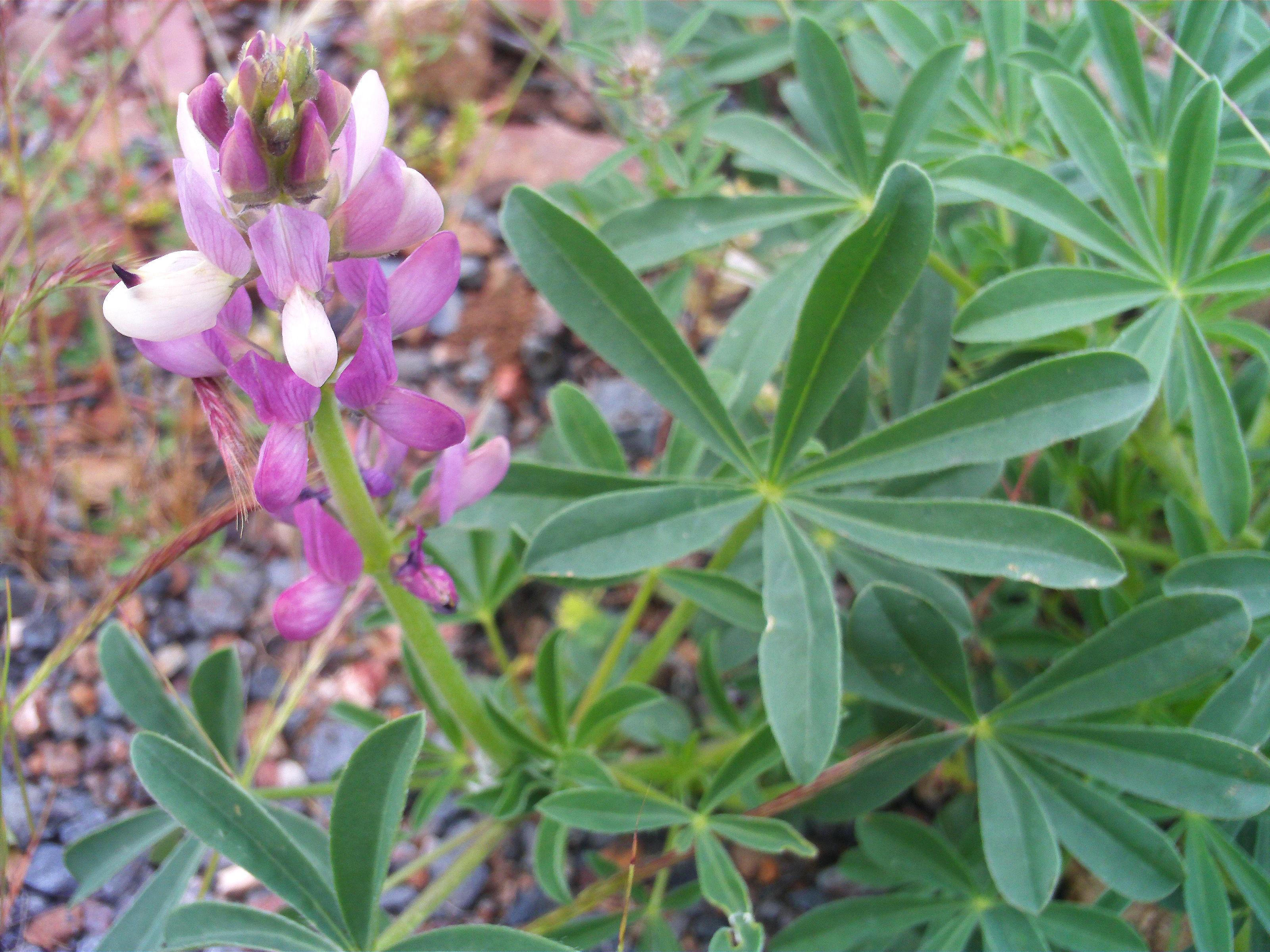 Lupinus hispanicus Flowers and leaves, Dehesa Boyal de Puertollano, Spain